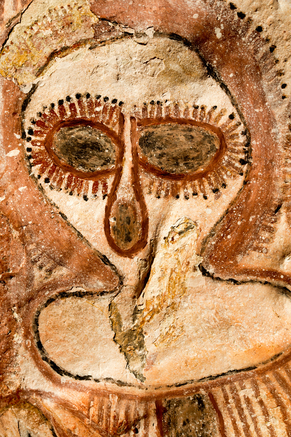 Rock painting of Wandjina from Mount Elizabeth, Australia.